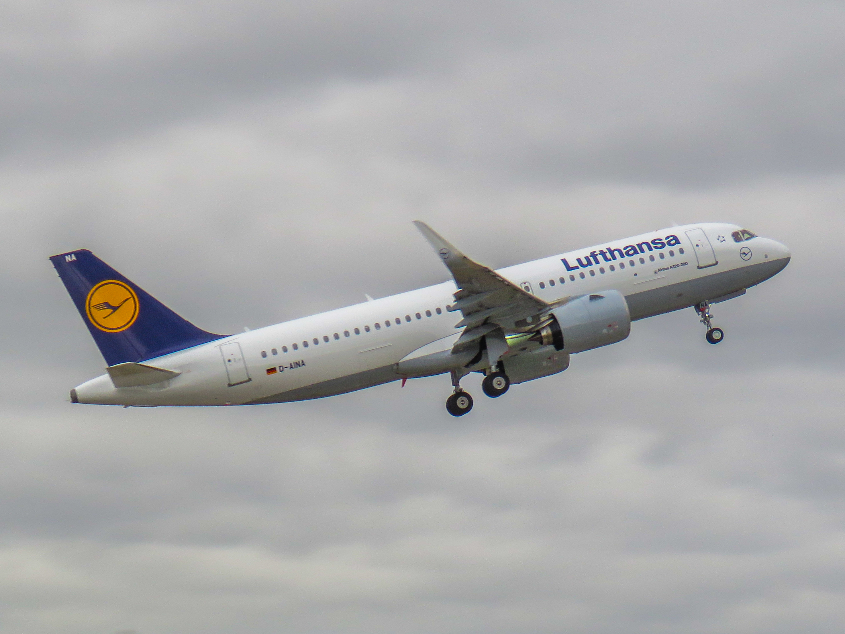 Lufthansa Airbus A320 neo D-AINA, The world's first A320 neo